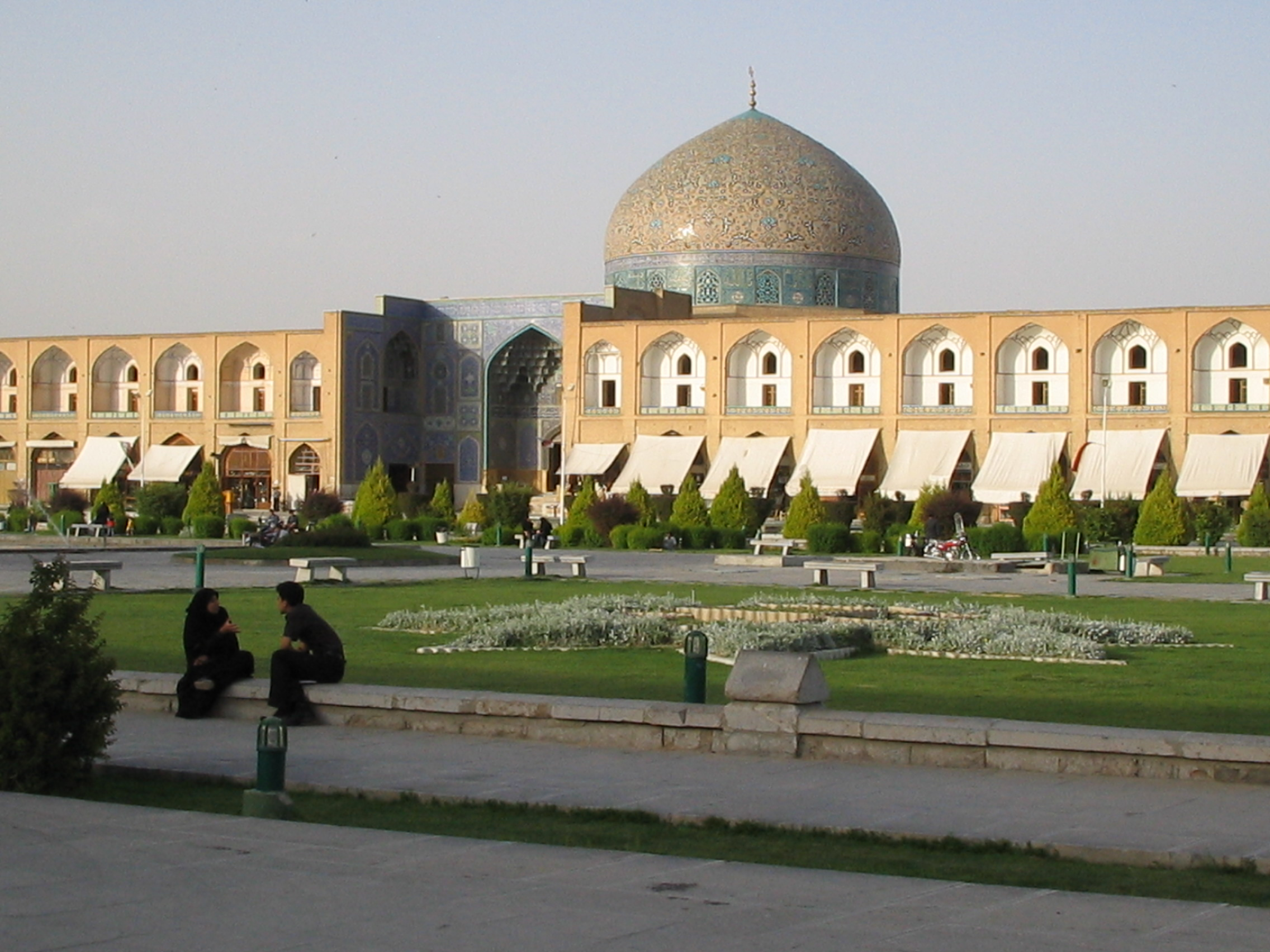 A boy and a girl flirting in front of Masjed-e Sheikh Lotfallah, Esfahan, Iran.